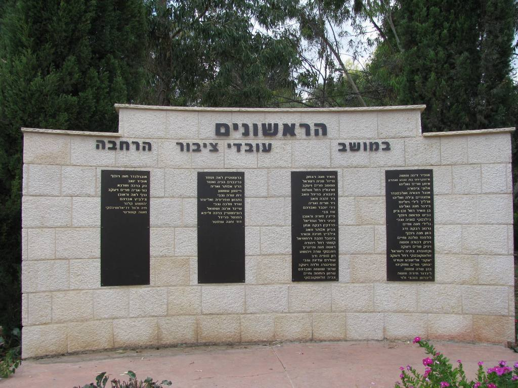 Tel Adashim , Geography of Israel